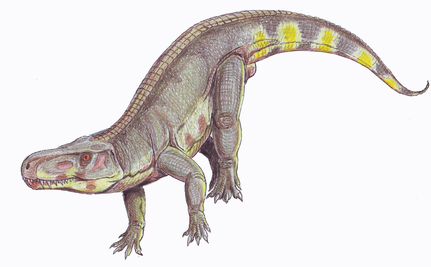 Life reconstruction of the rauisuchian Batrachotomus kupferzellensis from the late Ladinian of Germany